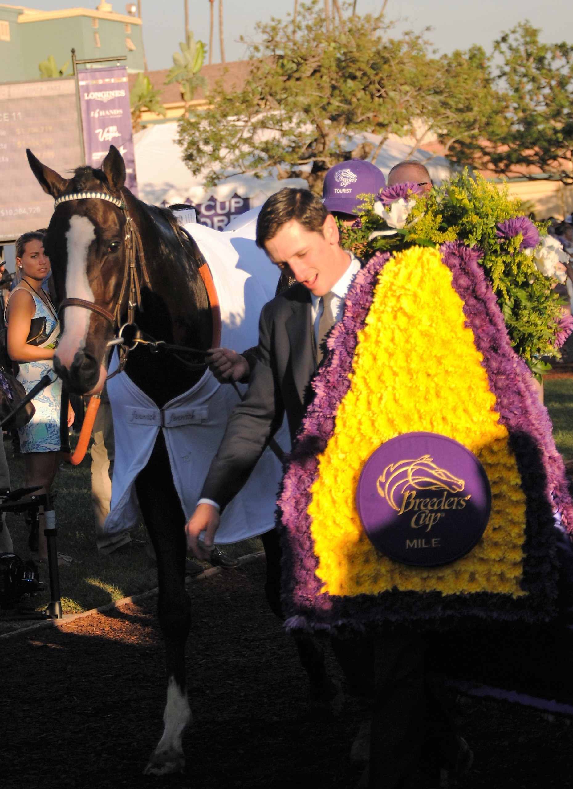 Tourist with the winner's blanket for the 2016 Breeders' Cup Mile